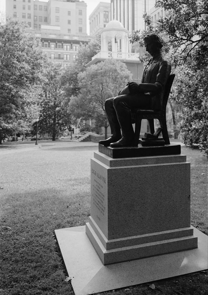 Photograph of the Edgar Allan Poe Statue, looking southwest, with the belltower in the background, Virginia State Capitol, Bank and 10th Streets, Capitol Square, Richmond, Virginia. Historic American Buildings Survey, Library of Congress, Washington, D. C.